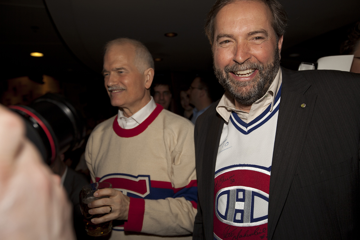 New Democrat Leader Jack Layton and Tom Mulcair in Montreal, Quebec on April 14, 2011.